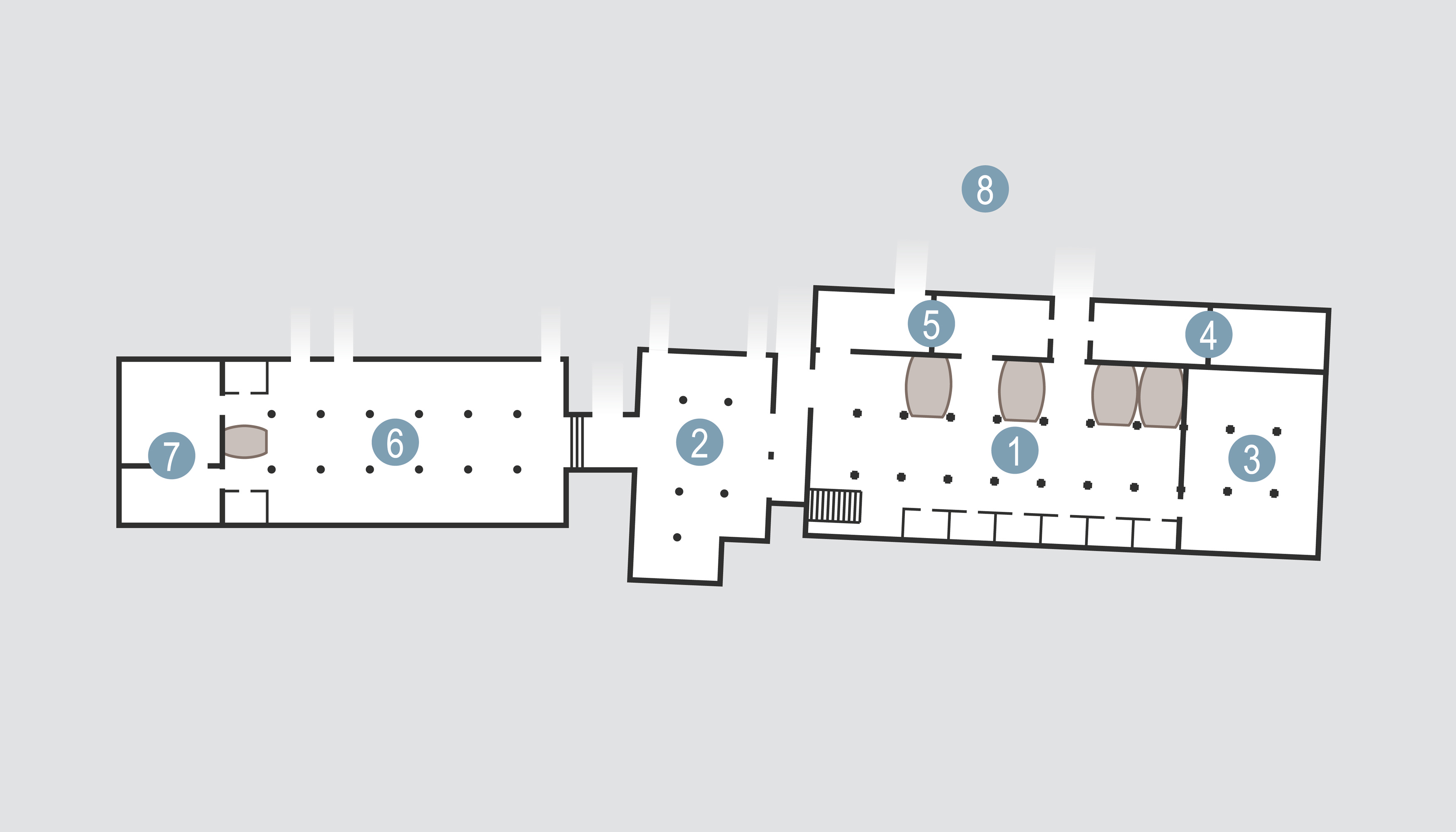 Ground plan of a part of the Bremer Ratskeller (the wine celler of the city hall) in Bremen, Germany.